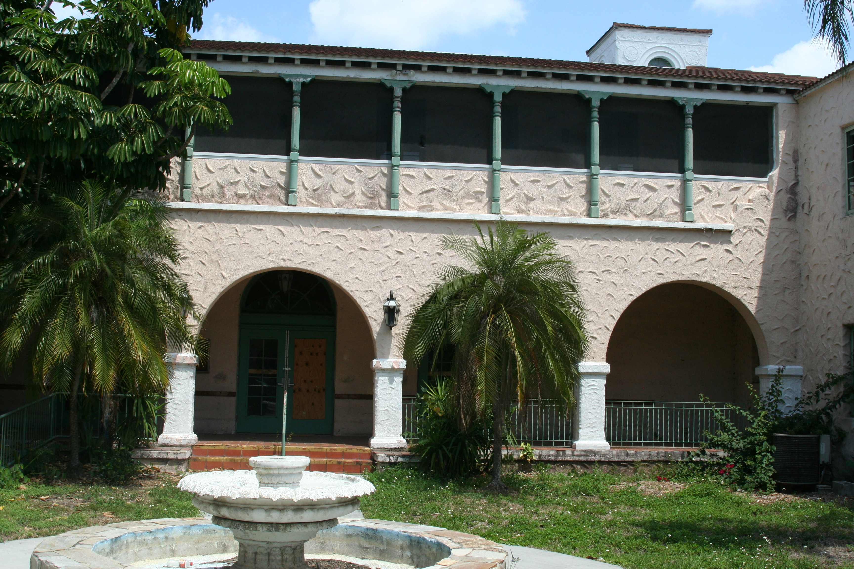 Hacienda Hotel courtyard. New Port Richey. April 2012